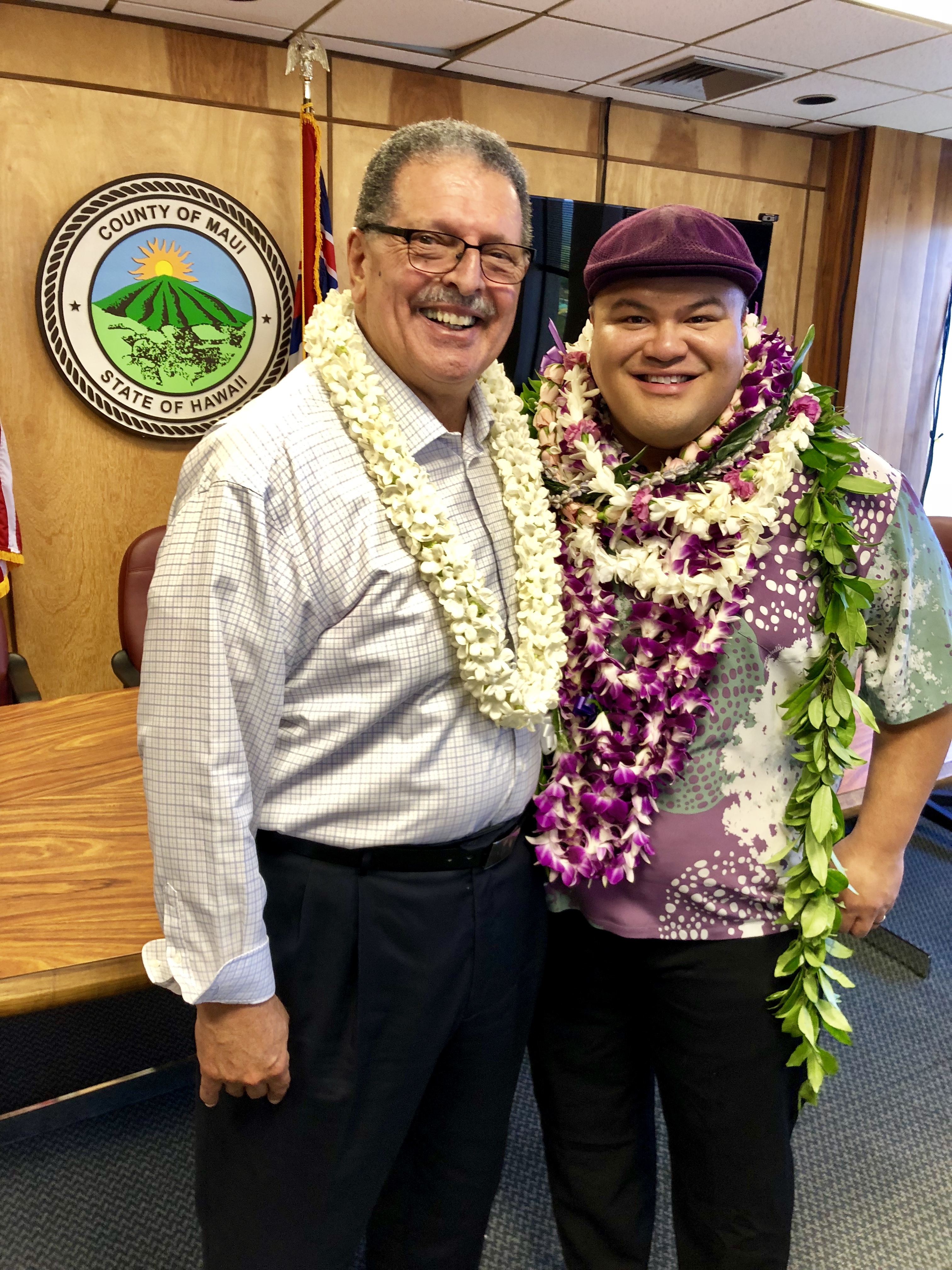 Maui Mayor Michael Victorino & Kalani Pe'a May 2019 - Pe'a was honored for receiving his second Grammy Award